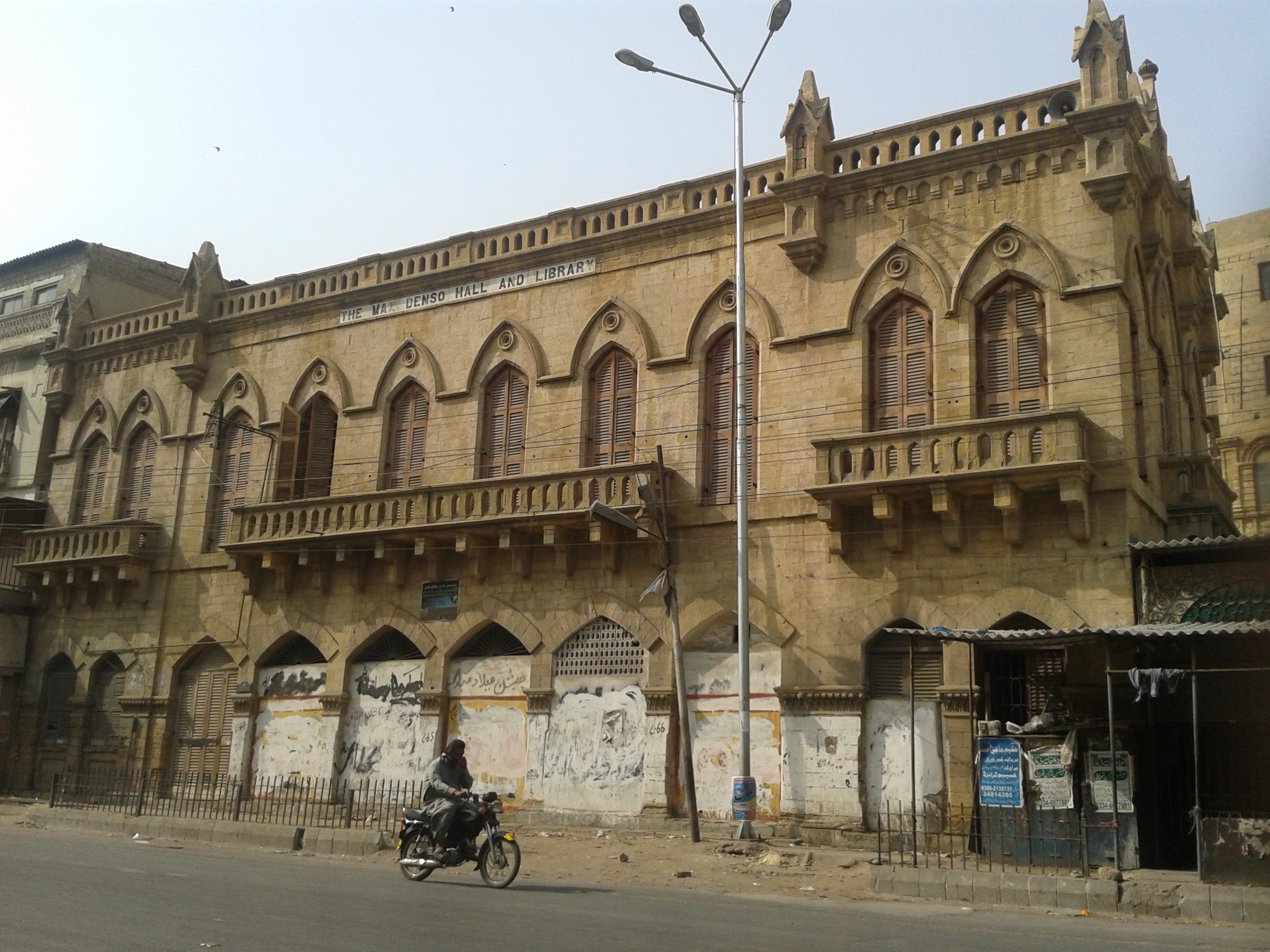 Denso Hall This is a photo of a monument in Pakistan identified as the SD-P-18